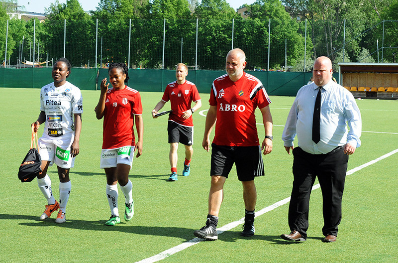 Piteå IF's Nigerian player Faith Ikidi